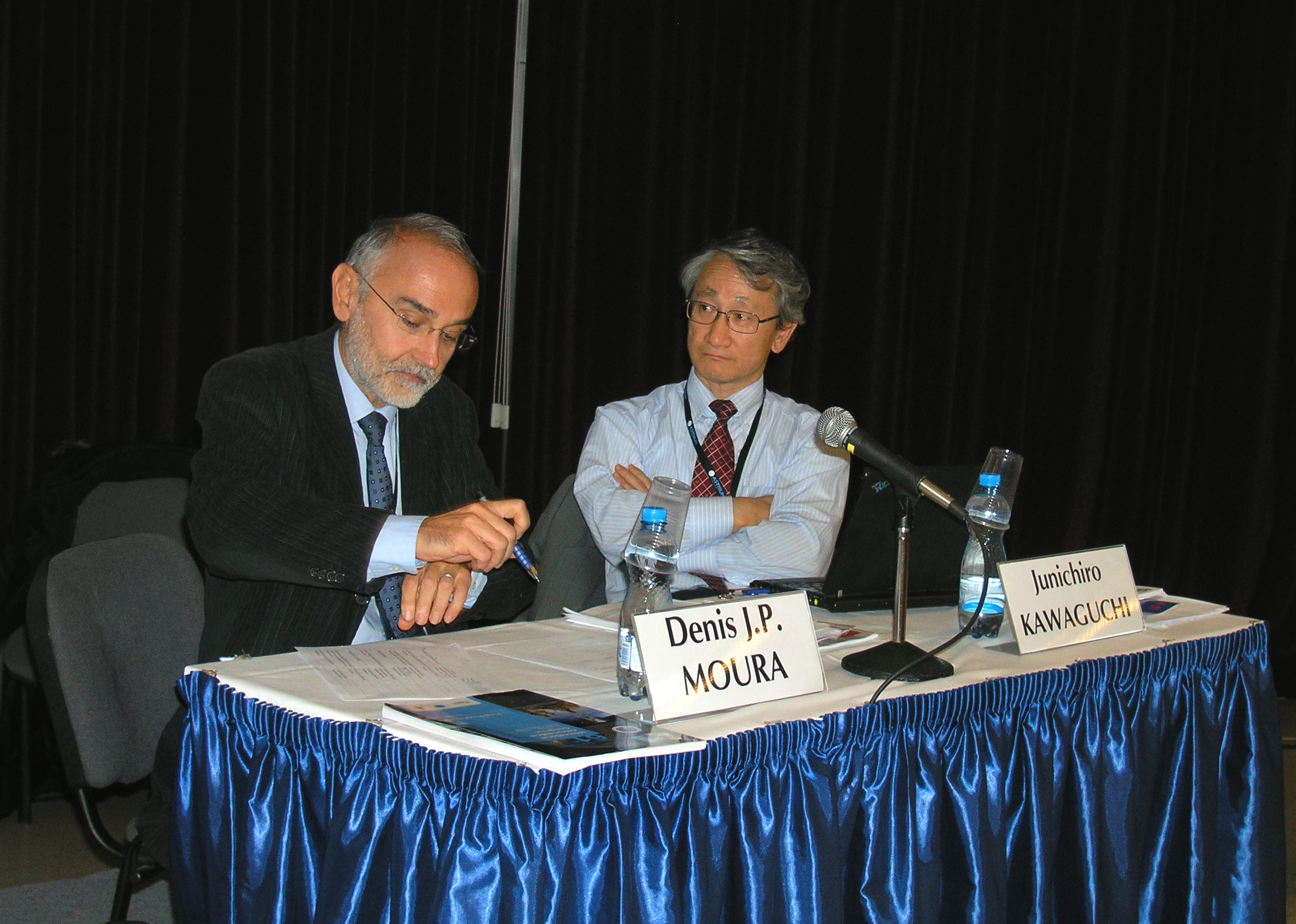 Junichiro Kawaguchi (Japan) and Denis J. P. Moura (Belgium), chairs of the Solar System Exploration technical session. 61st International Astronautical Congress in Prague, Czech Republic.